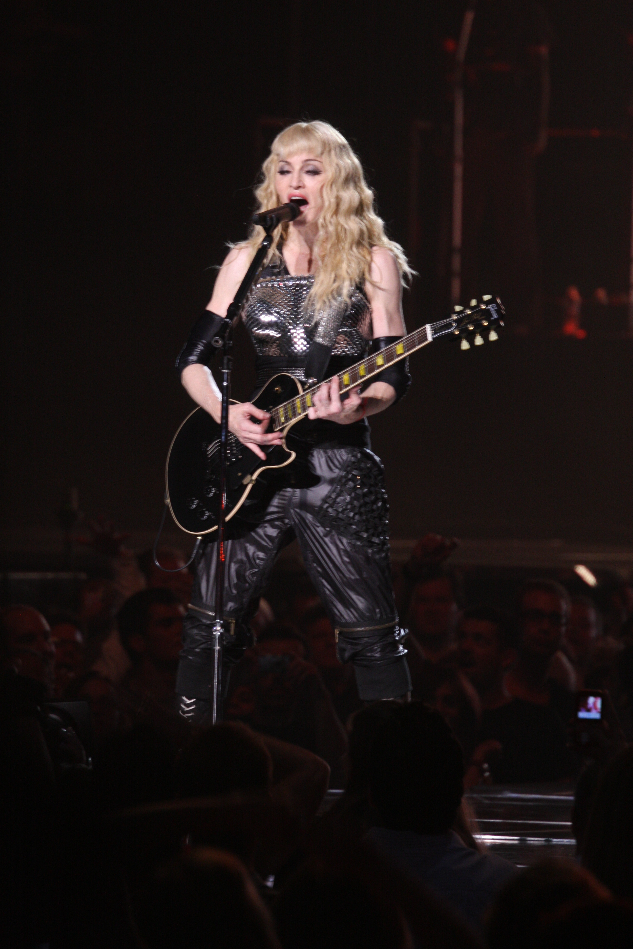 The performance of "Ray Of Light"